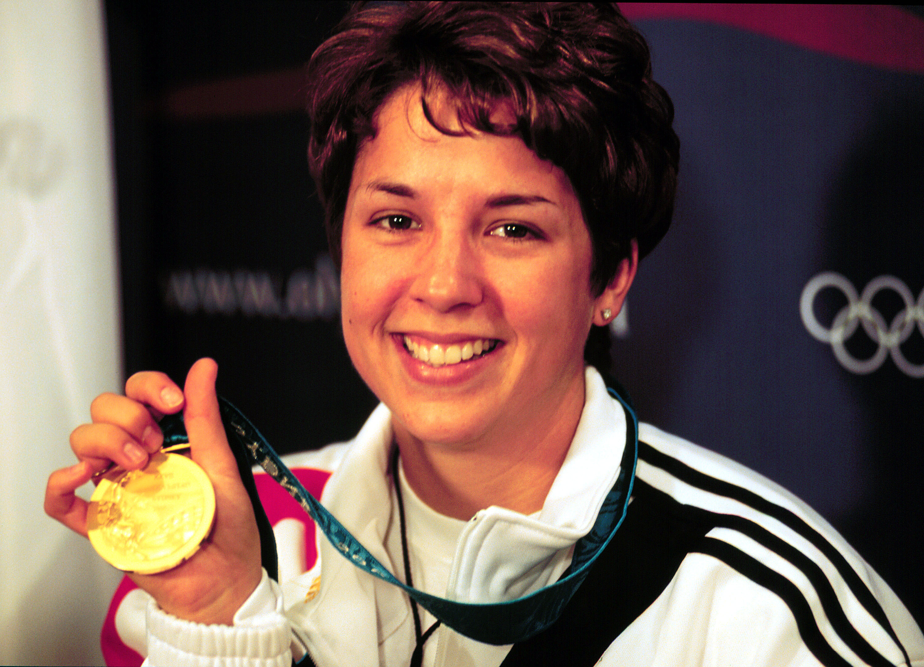 Nancy Johnson Nancy Johnson is all smiles as she holds up the gold medal she won in the 10-meter air rifle competition at the 2000 Olympic Games in Sydney, Australia, on Sept. 16, 2000. Johnson's gold medal was the first gold medal awarded in the Sydney Games and the first gold for the U.S. Johnson is married to U.S. Army Staff Sgt. Ken Johnson, who is also on the U.S. Olympic shooting team. DoD photo by Tech. Sgt. Robert A. Whitehead, U.S. Air Force. (Released) 000916-F-8217W-007